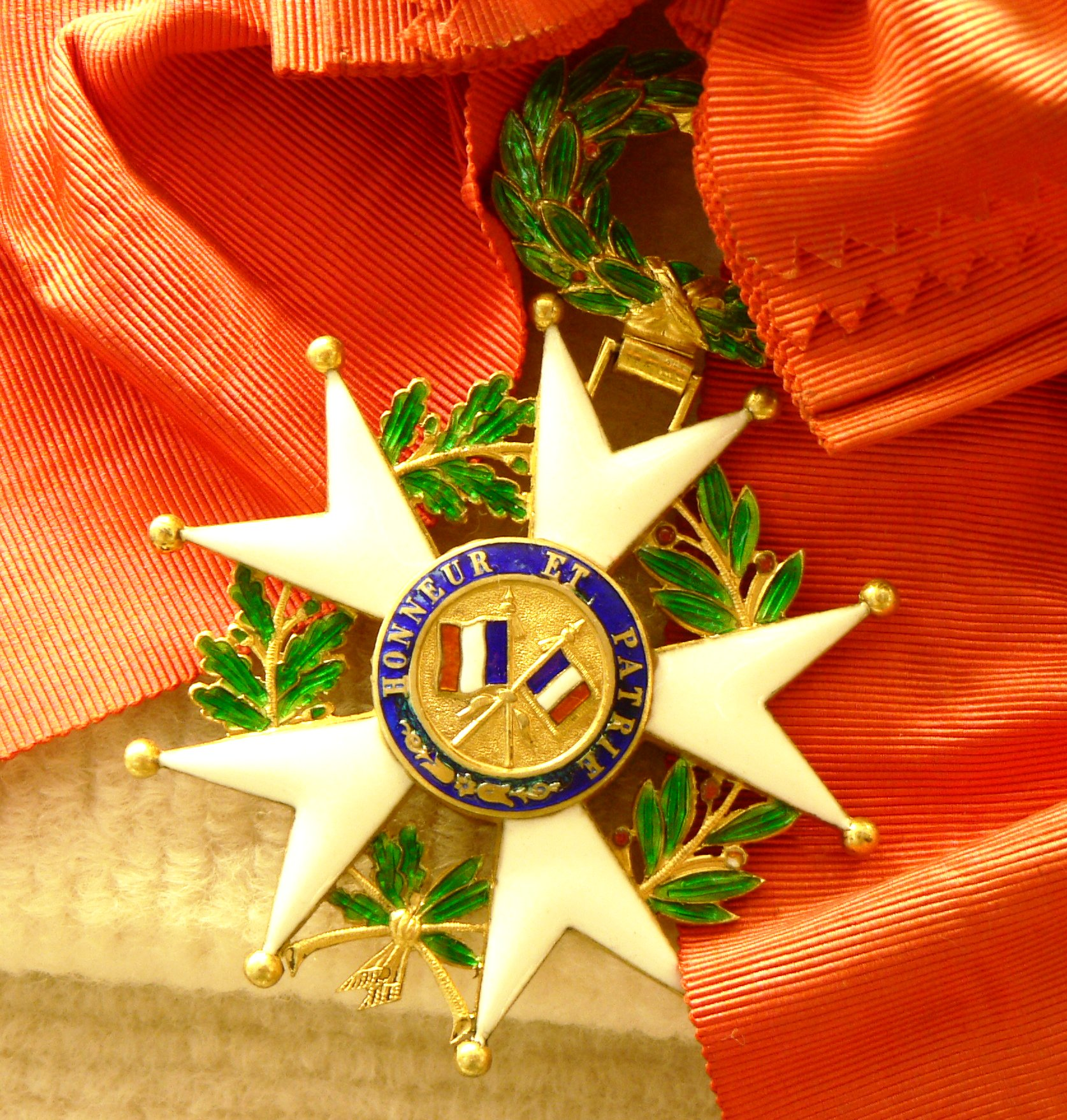 Chiang Kai-shek's Legion of Honor, exposed at his memorial in Taipei